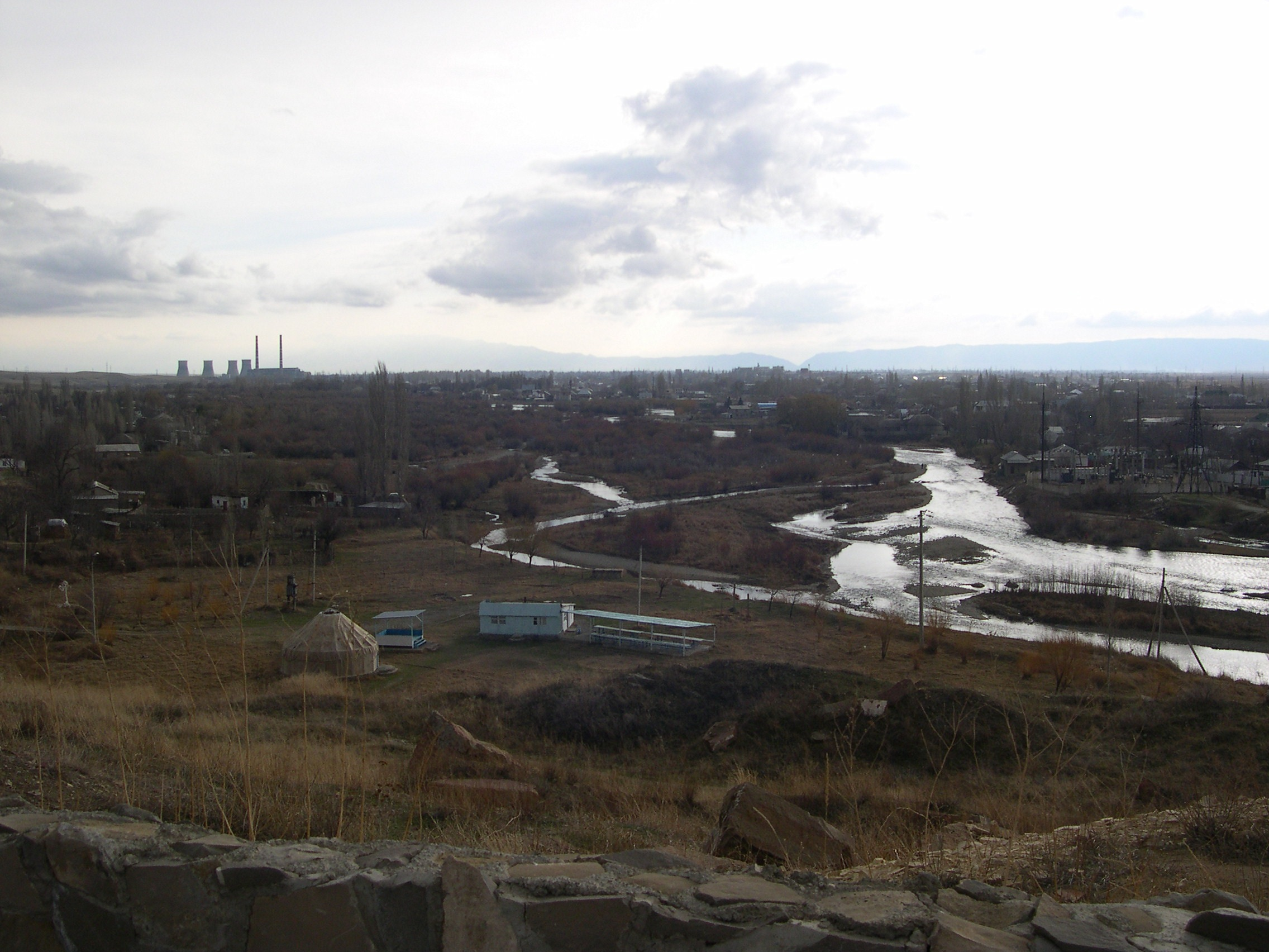 This river starts in the mountains of Kyrgyzstan and winds down into Kazakhstan. The right side of the river is the city of Taraz. Check out the yurt on the left side though!